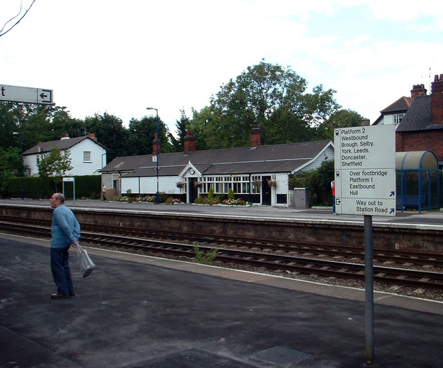 North Ferriby railway station in the East Riding of Yorkshire, England.Ferriby Railway Station seen from the Humber Road entrance.